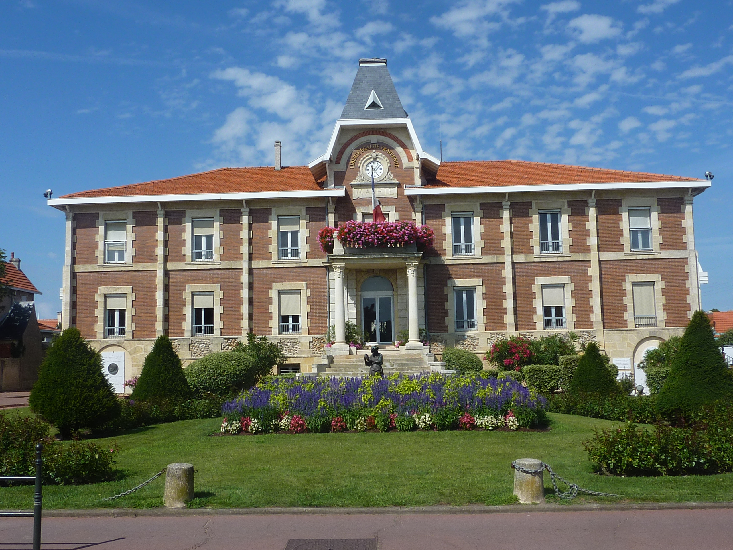 Town hall of Soulac-sur-Mer, Gironde, France